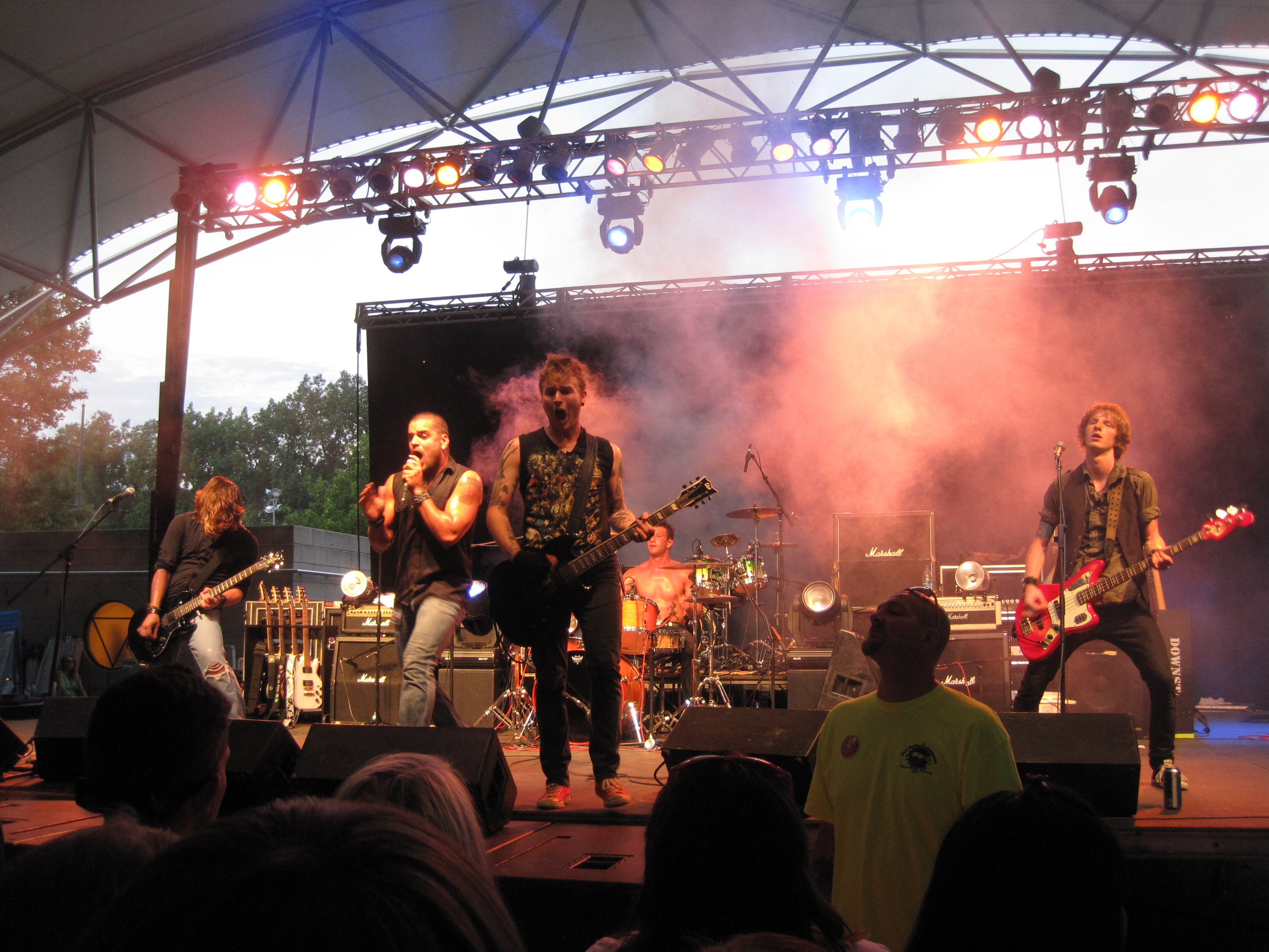 Downstait performing at the Three Rivers Festival Event Pavilion on July 10, 2010 in Fort Wayne, Indiana.